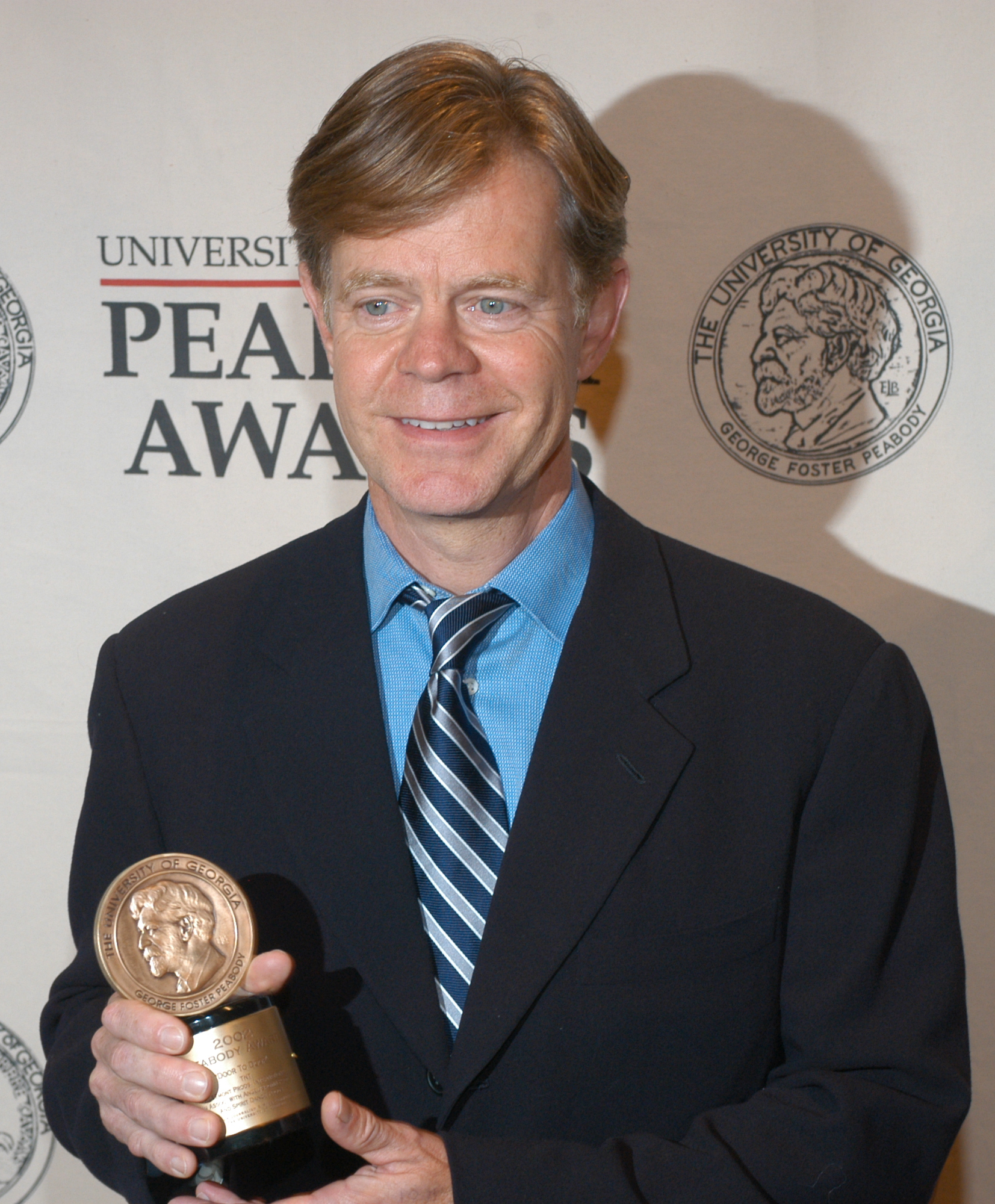 William H. Macy at the 62nd Annual Peabody Awards Luncheon Waldorf=Astoria Hotel May 19, 2003